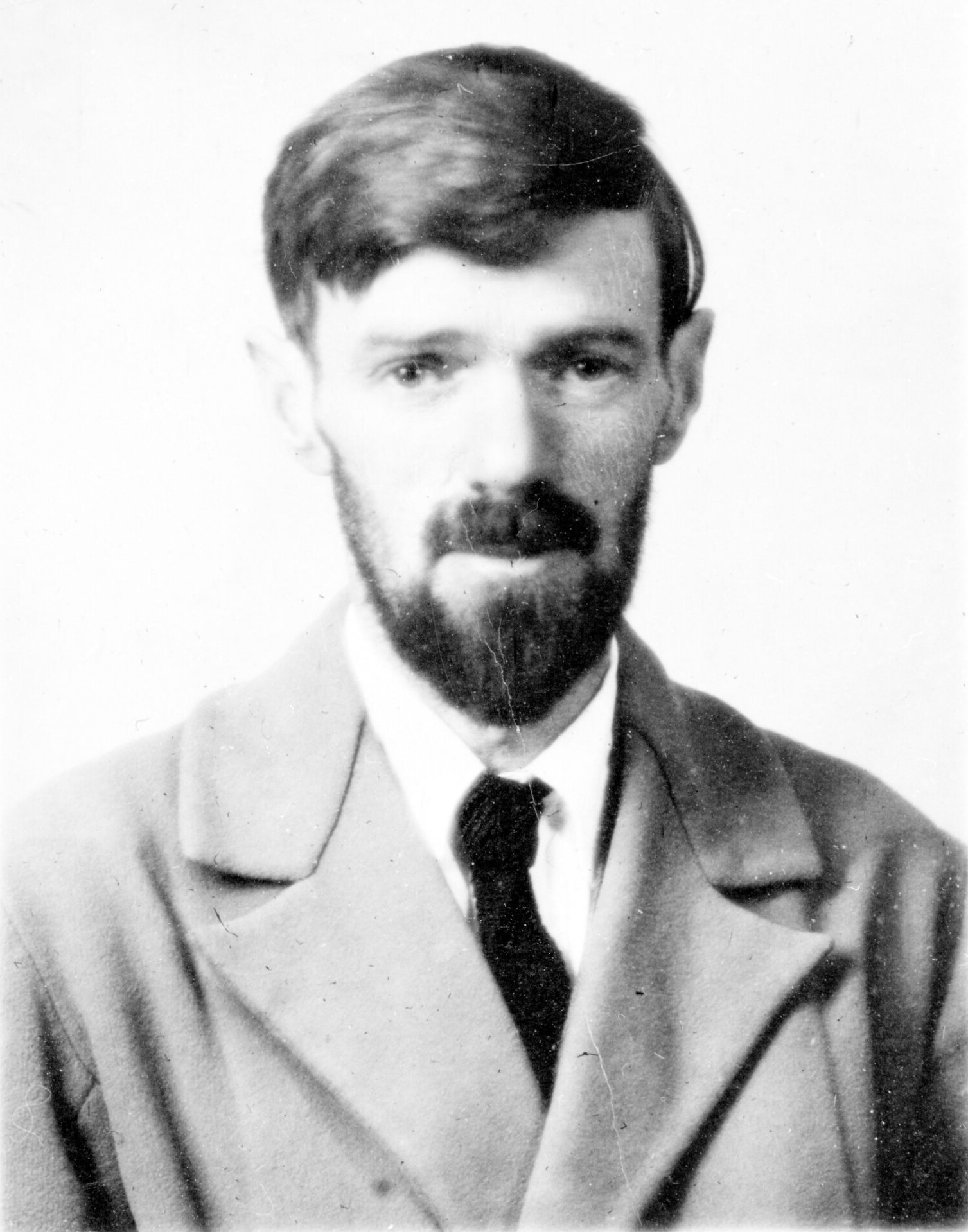 Passport photograph of the British author D. H. Lawrence.